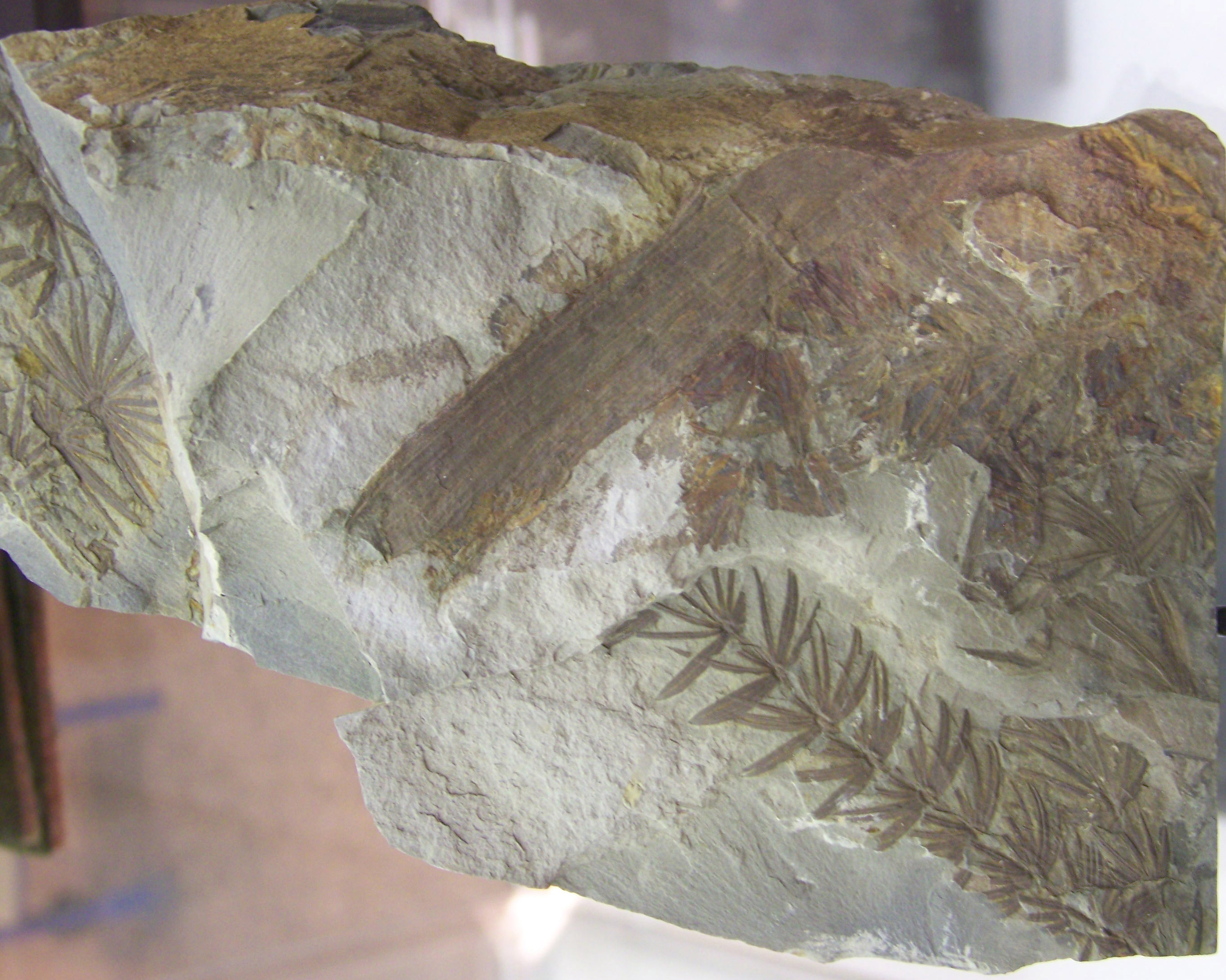 Fossil plants of the species Asterophyllites equisetiformis, Carboniferous. Collection of the Universiteit Utrecht